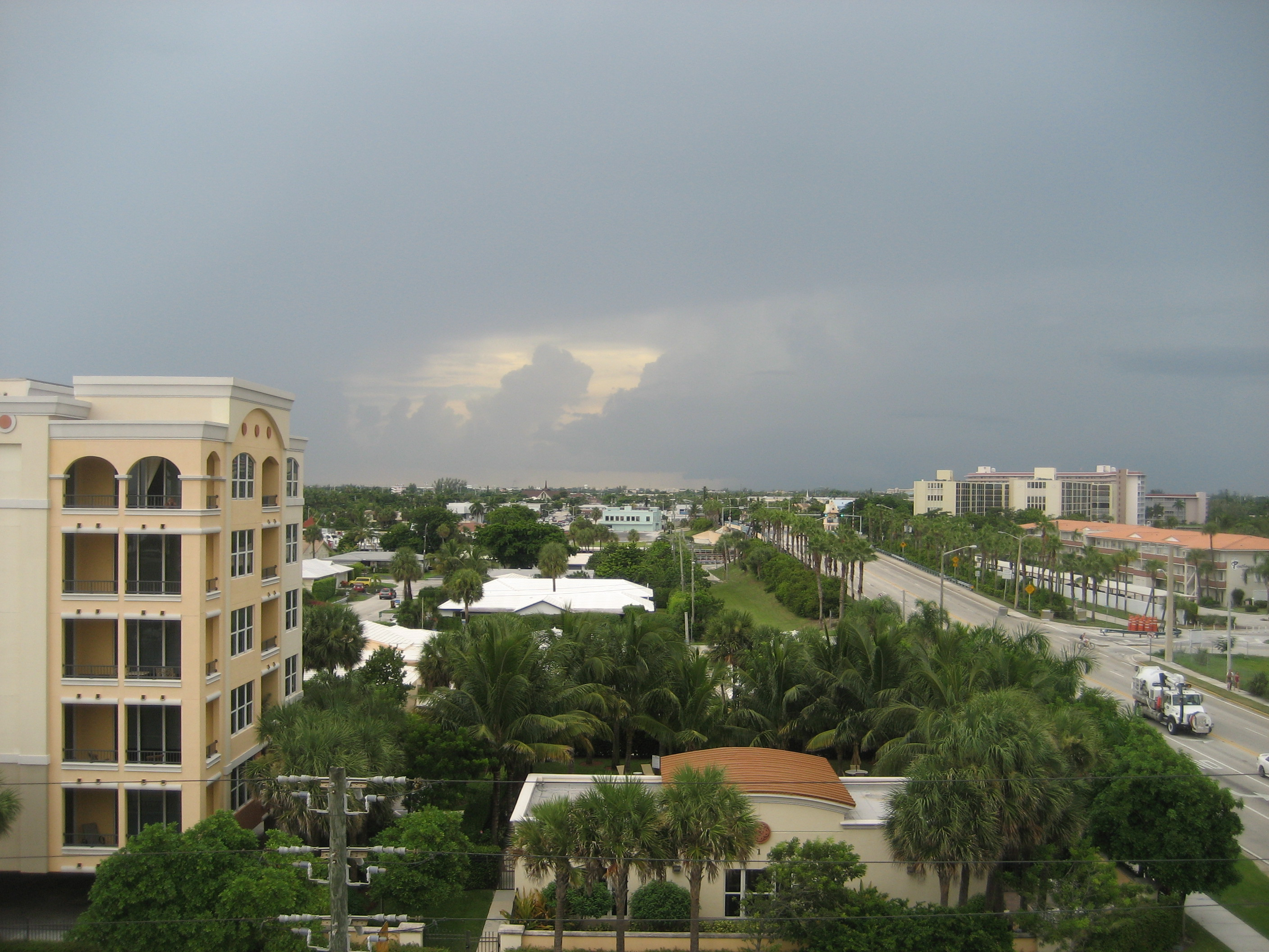 Deerfield Beach, Florida. View looking inland at Hilsboro Boulevard near A1A